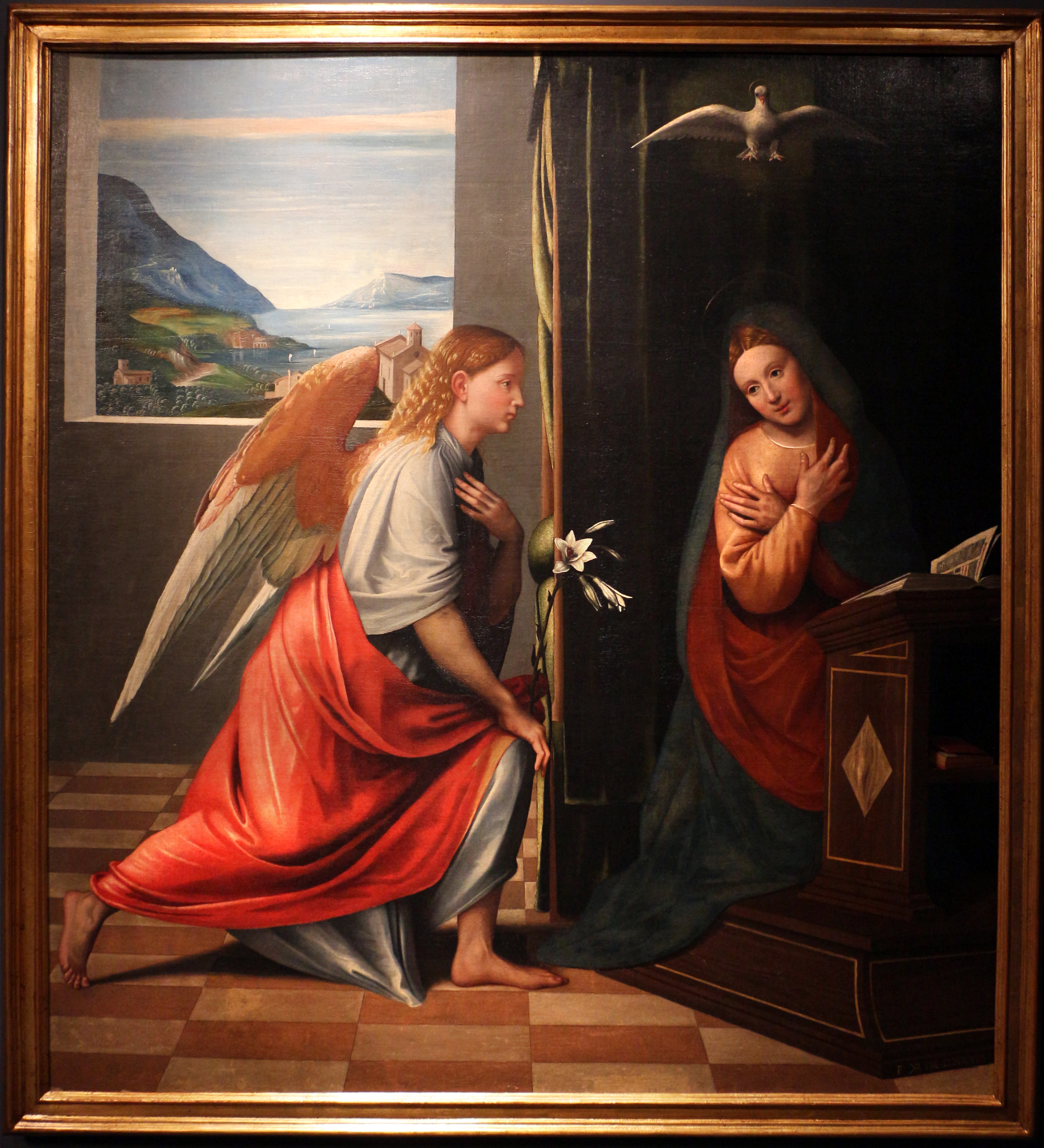 Courtesy of Adolfo Alessio Nobili - Dipinti Antichi - Milano